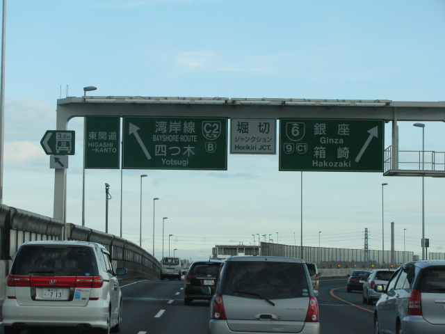 Horikiri Junction on the Metropolitan Expressway Route C2